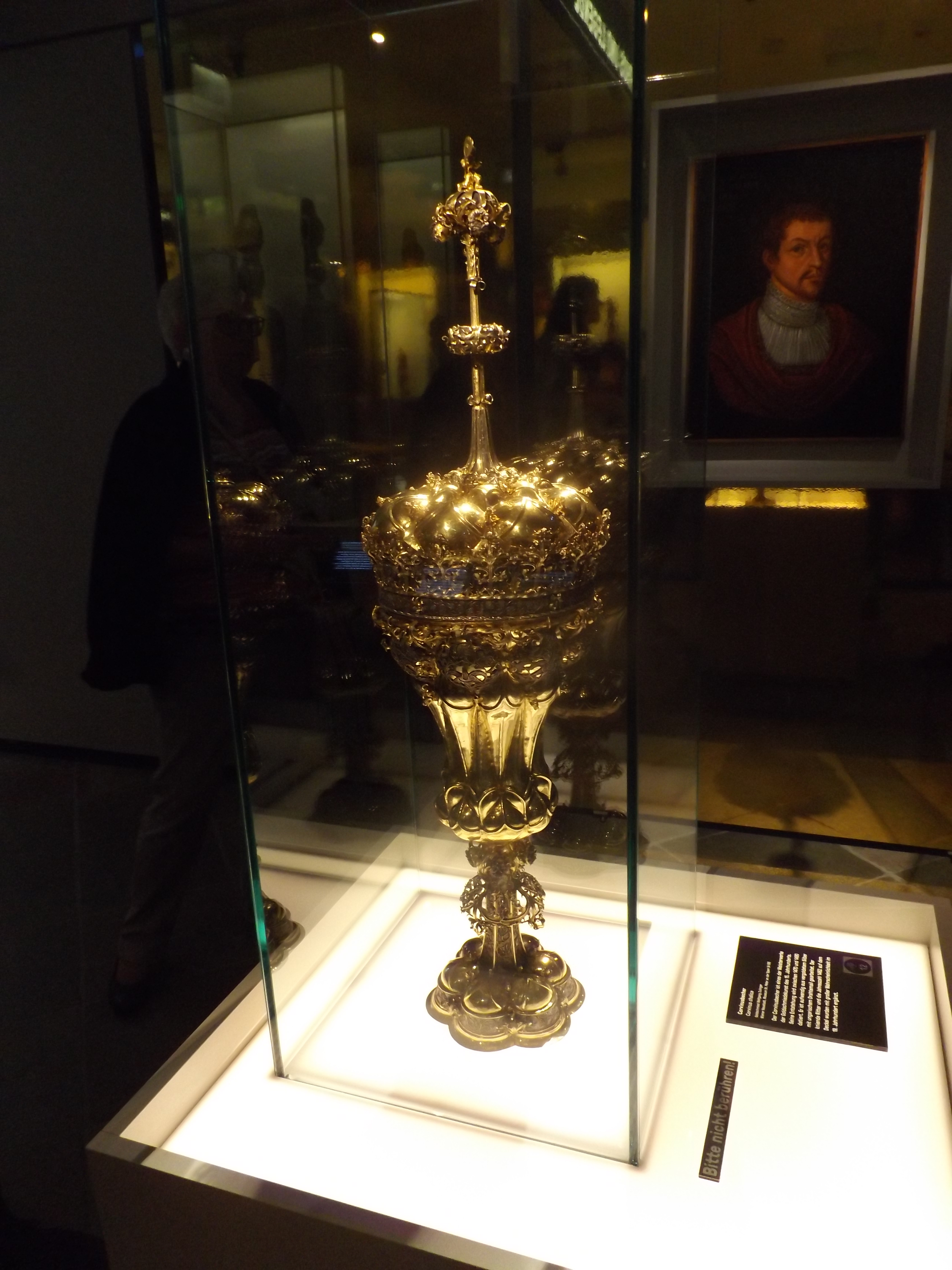 Corvnus Chalice in the City Museum Wiener Neustadt (Exhibition of Land Lower Austria, 2019)